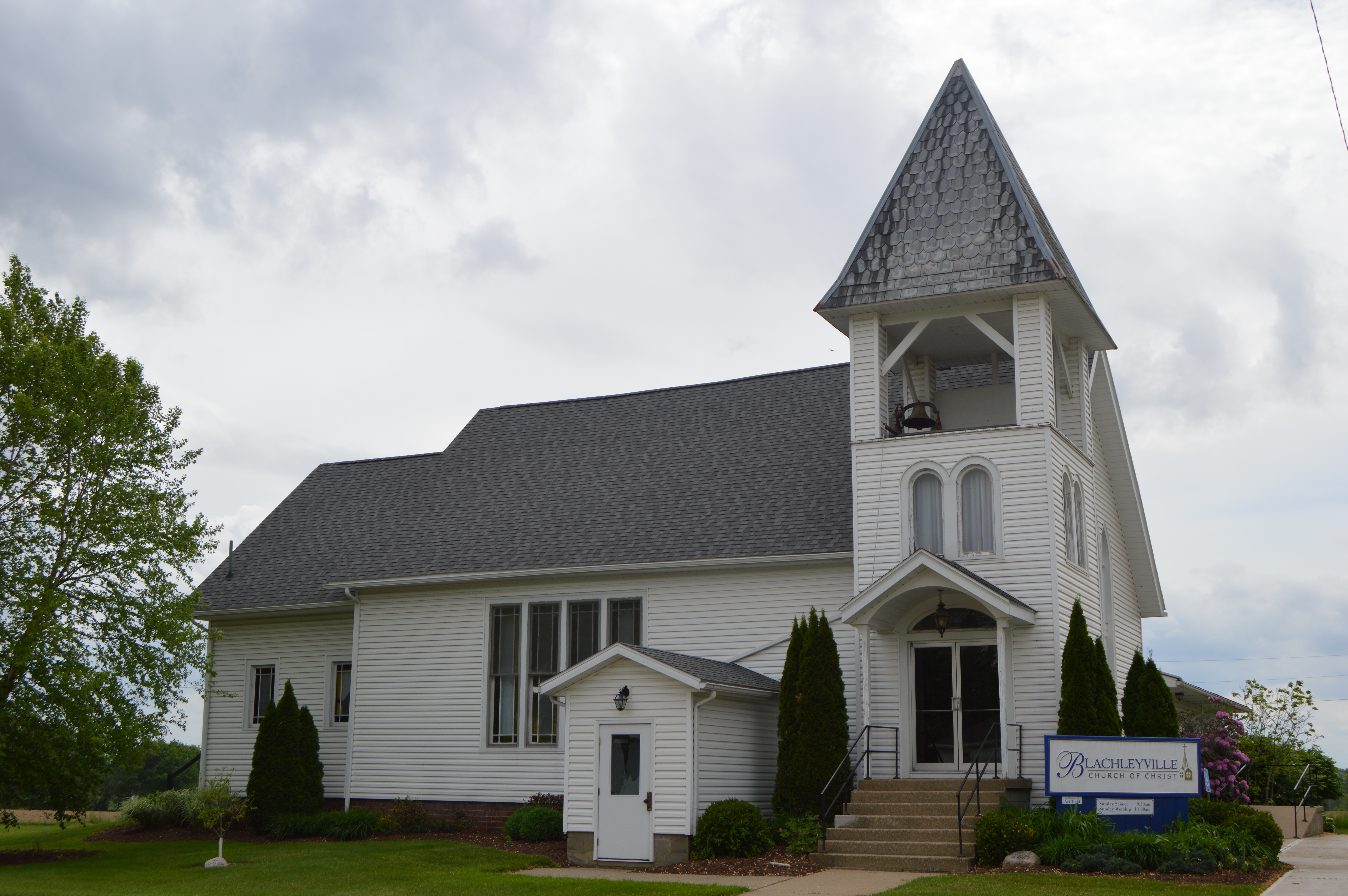 Eastern side and front of the Blachleyville Church of Christ, located at 8482 State Route 95 in Blachleyville, Ohio, United States.